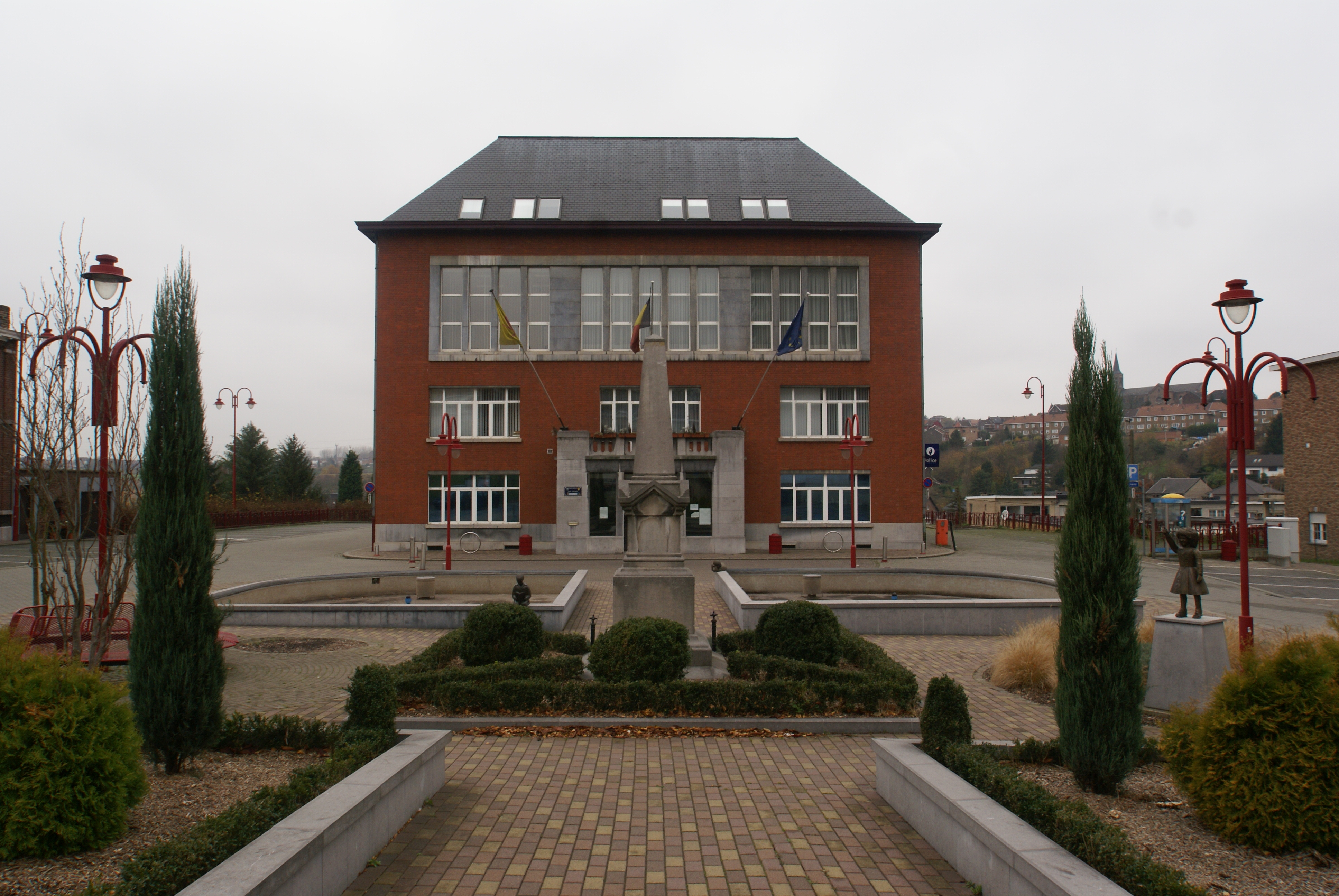 Saint-Nicolas (Liège) (Belgium): Town Hall